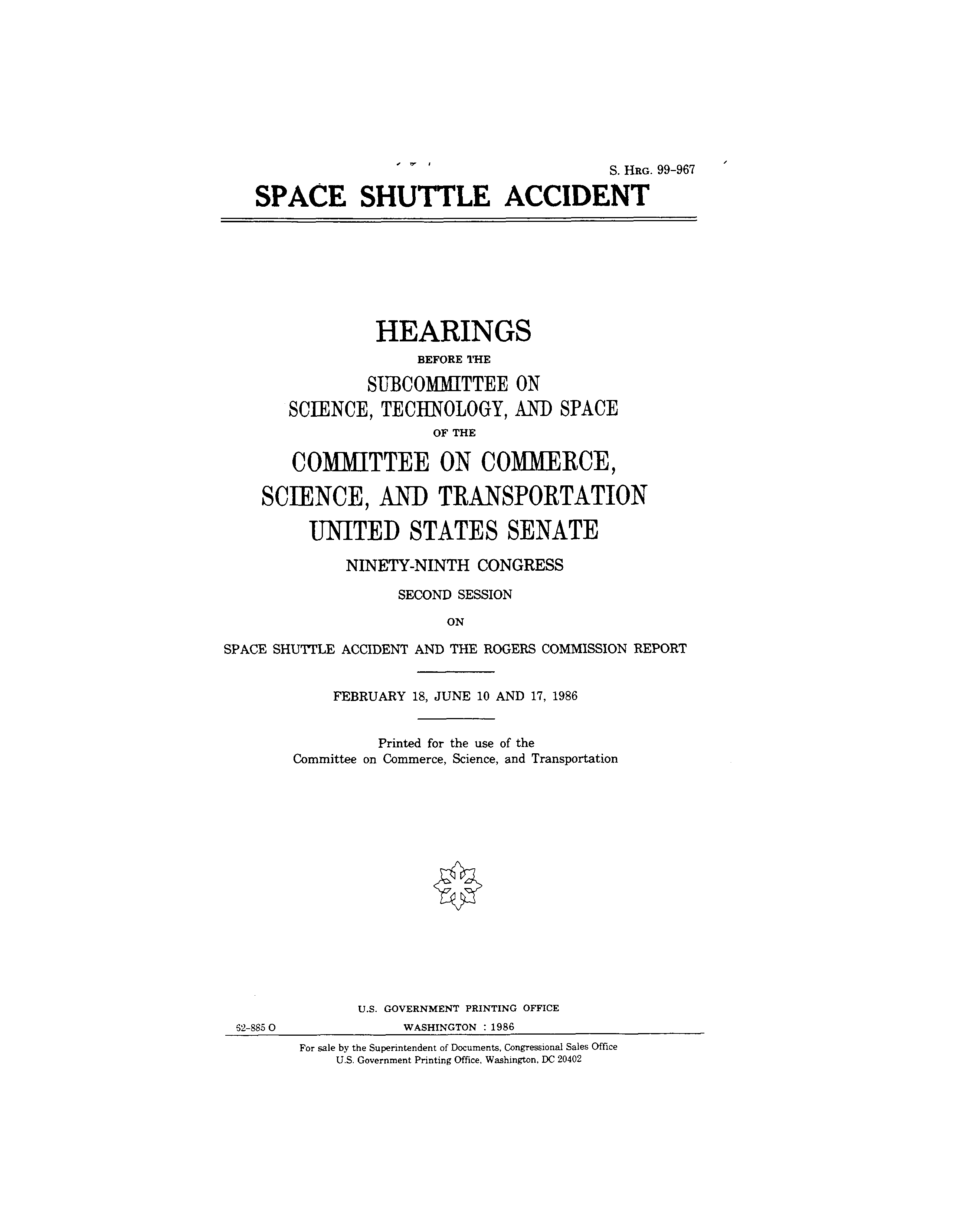 Cover of final report for Rogers Commission